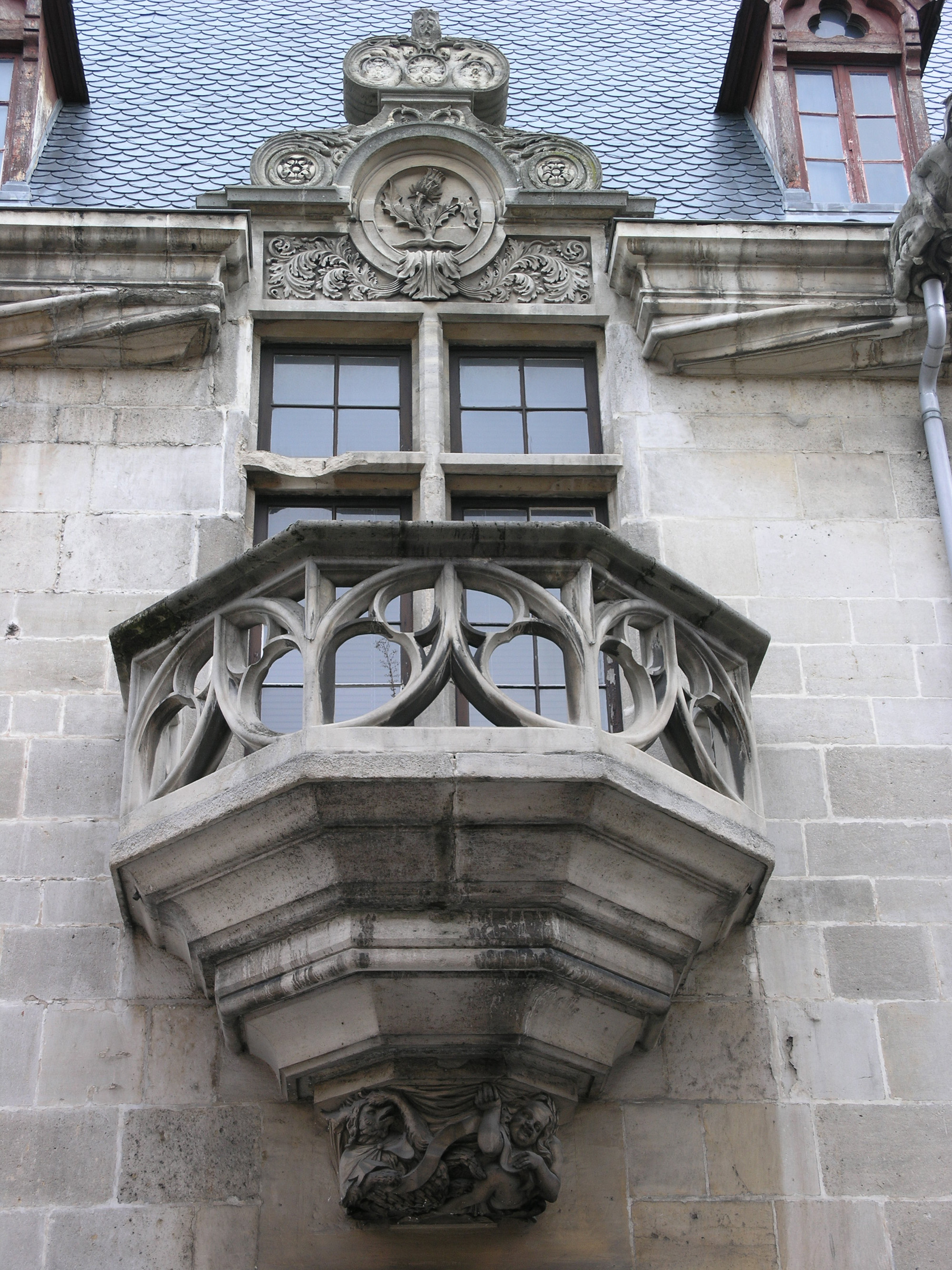 Balcony on the front side of the Palais ducal (Musée lorrain) in Nancy, France. Photograph taken by Marsyas 15:12, 25 February 2006 (UTC)